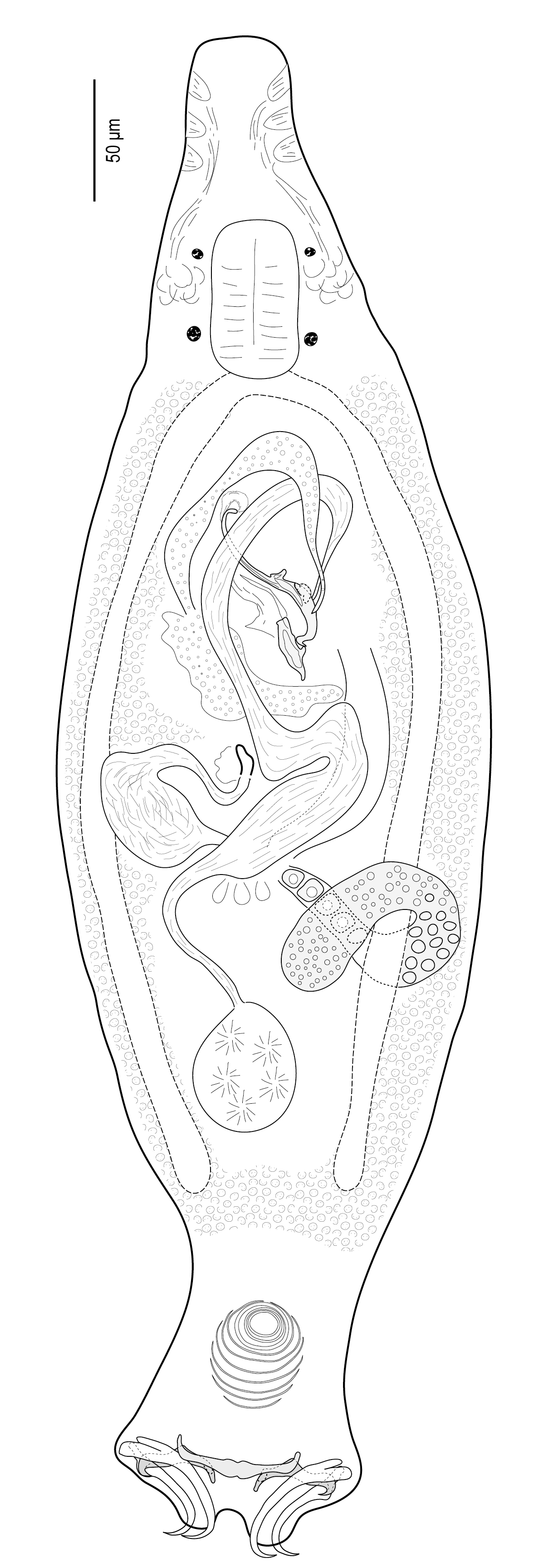 Calydiscoides euzeti Justine, 2007 (Monogenea, Monopisthocotylea, Diplectanidae), parasite on the gills of the fish Lethrinus rubrioperculatus (Teleostei, Perciformes, Lethrinidae), New Caledonia; see Wikispecies page for this species